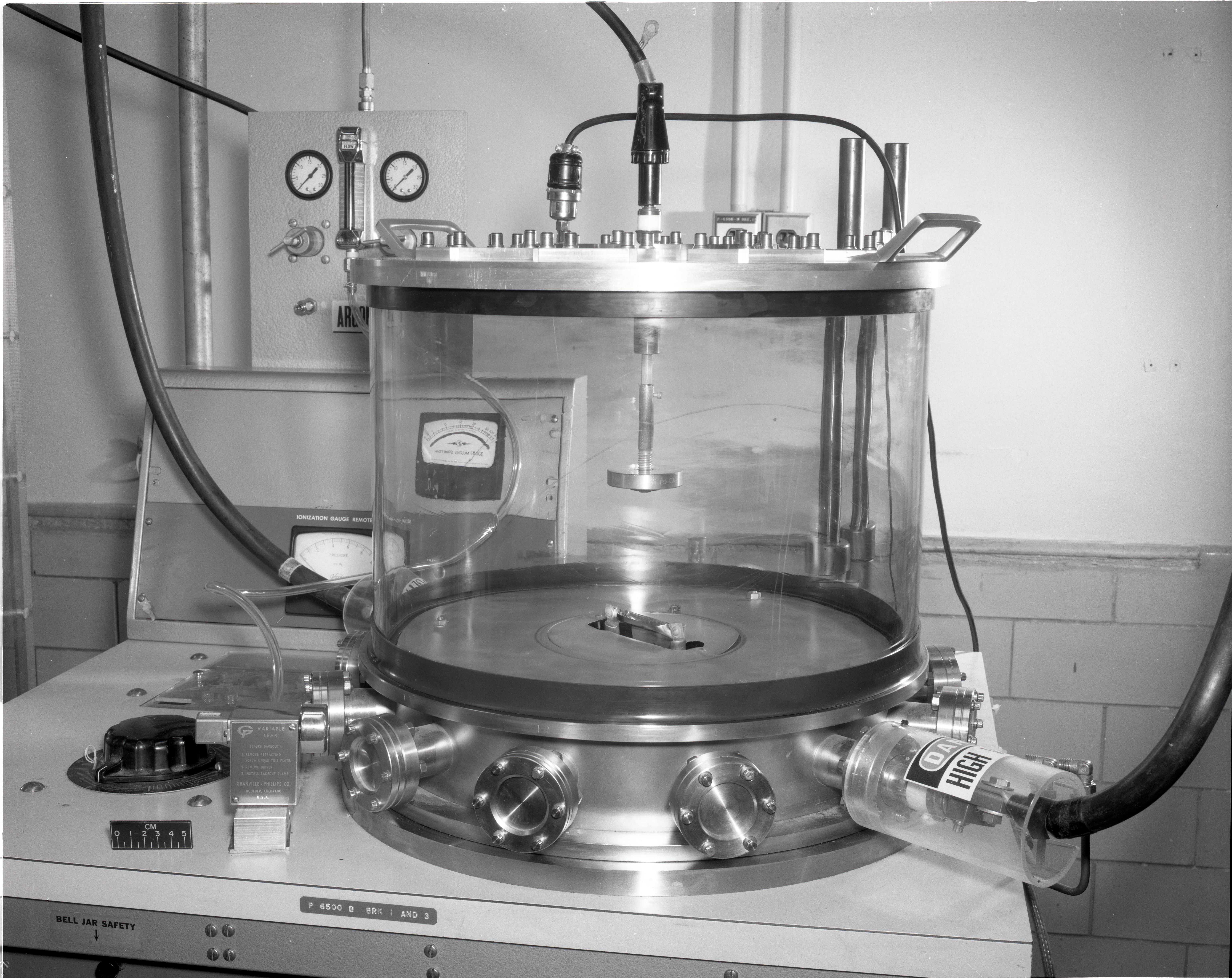 Scope and content: The original finding aid described this as: Capture Date: 4/2/1974 Photographer: PAUL RIEDEL Keywords: Larsen Scan